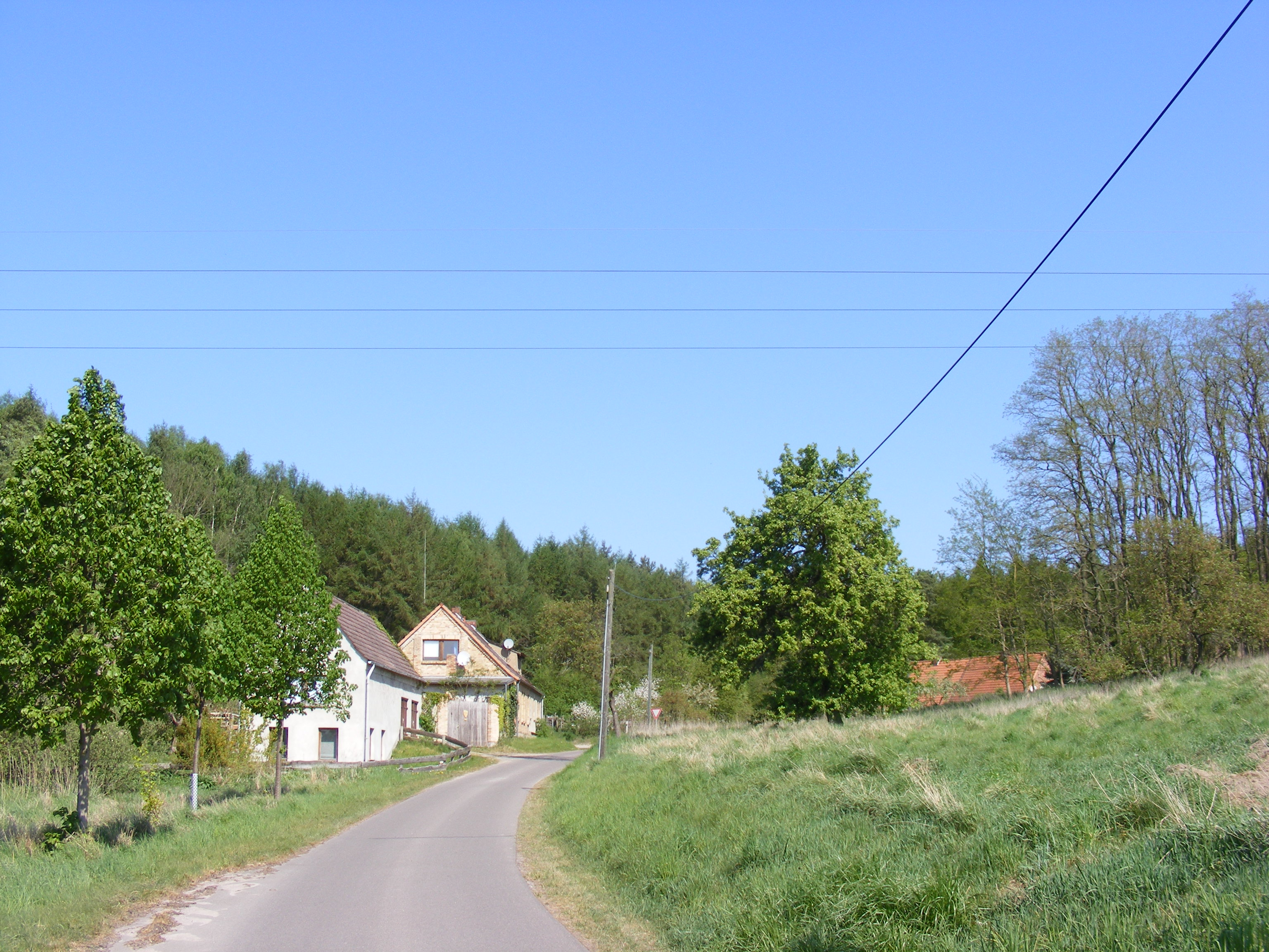 Village of Sagsdorf, near Sternberg, Mecklenburg, Germany